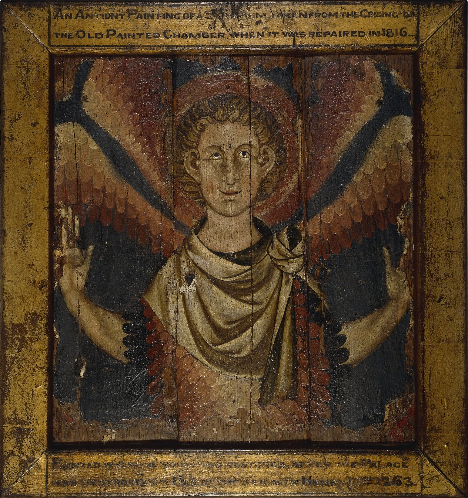 Wooden panel from Painted Chamber in Westminster Palace, removed in 1816 and rediscovered in Bristol in 1993. Acquired by the British Museum in 1995. Probably painted by Walter of Durham and his workshop.